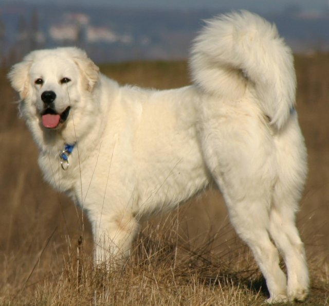 Vico d'Ellendil Tatra Shepherd Dog